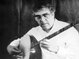 Turkish musician Tanburi Necdet Yasar